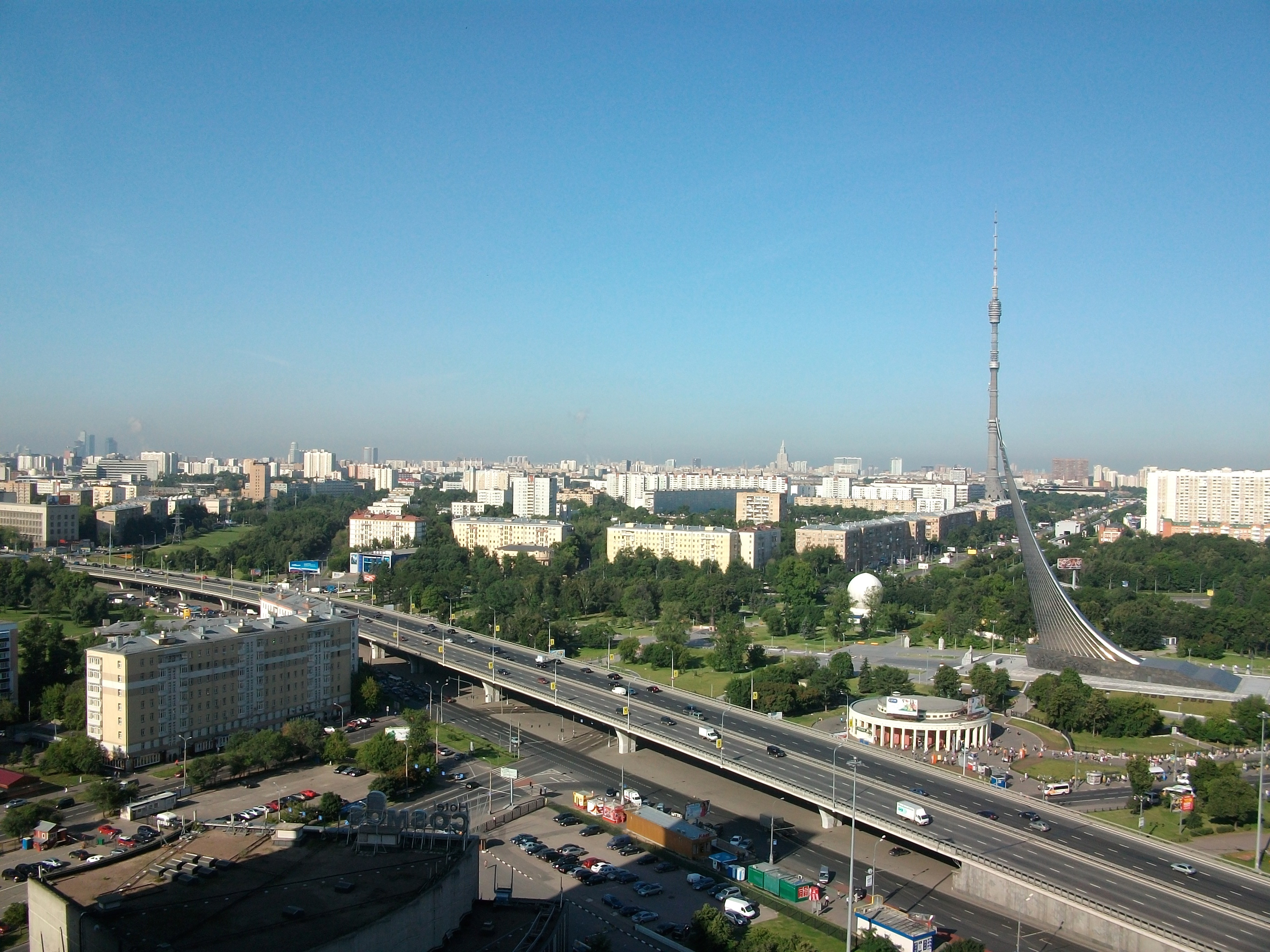 Northern part of Moscow (Ostankino Tower, Monument to the Conquerors of Space, Prospekt Mira, VDNKh metro station)